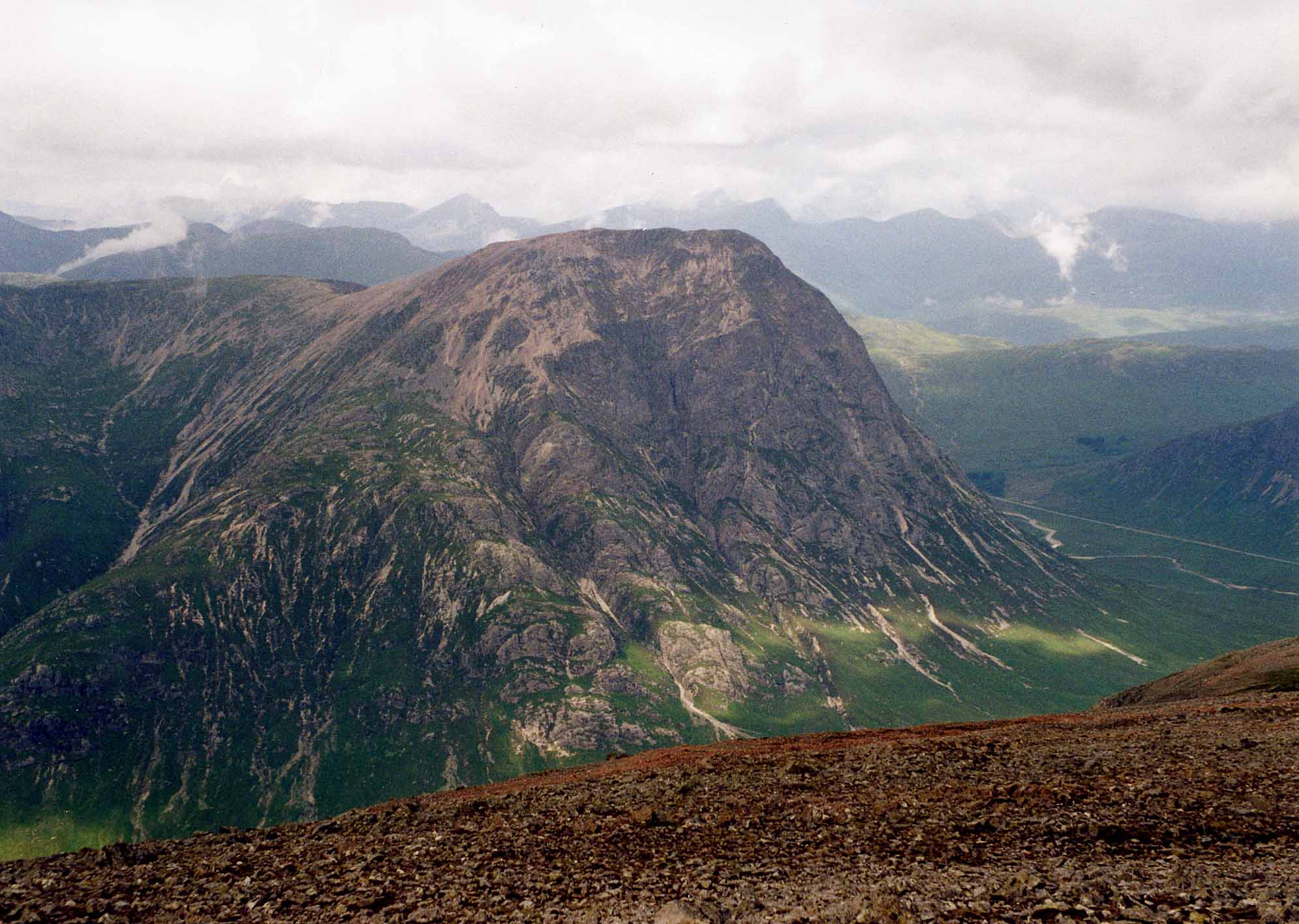 Buachaille Etive Mòr is a mountain in Scotland. Personal picture taken by Mick Knapton